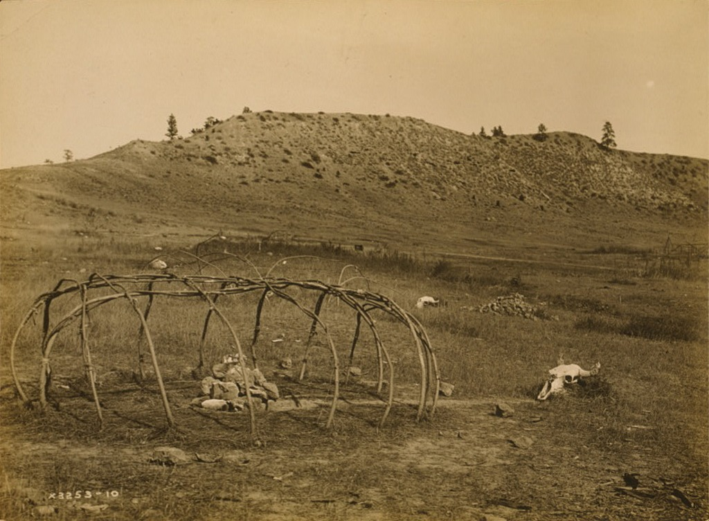 Sweat lodge frame - Cheyenne